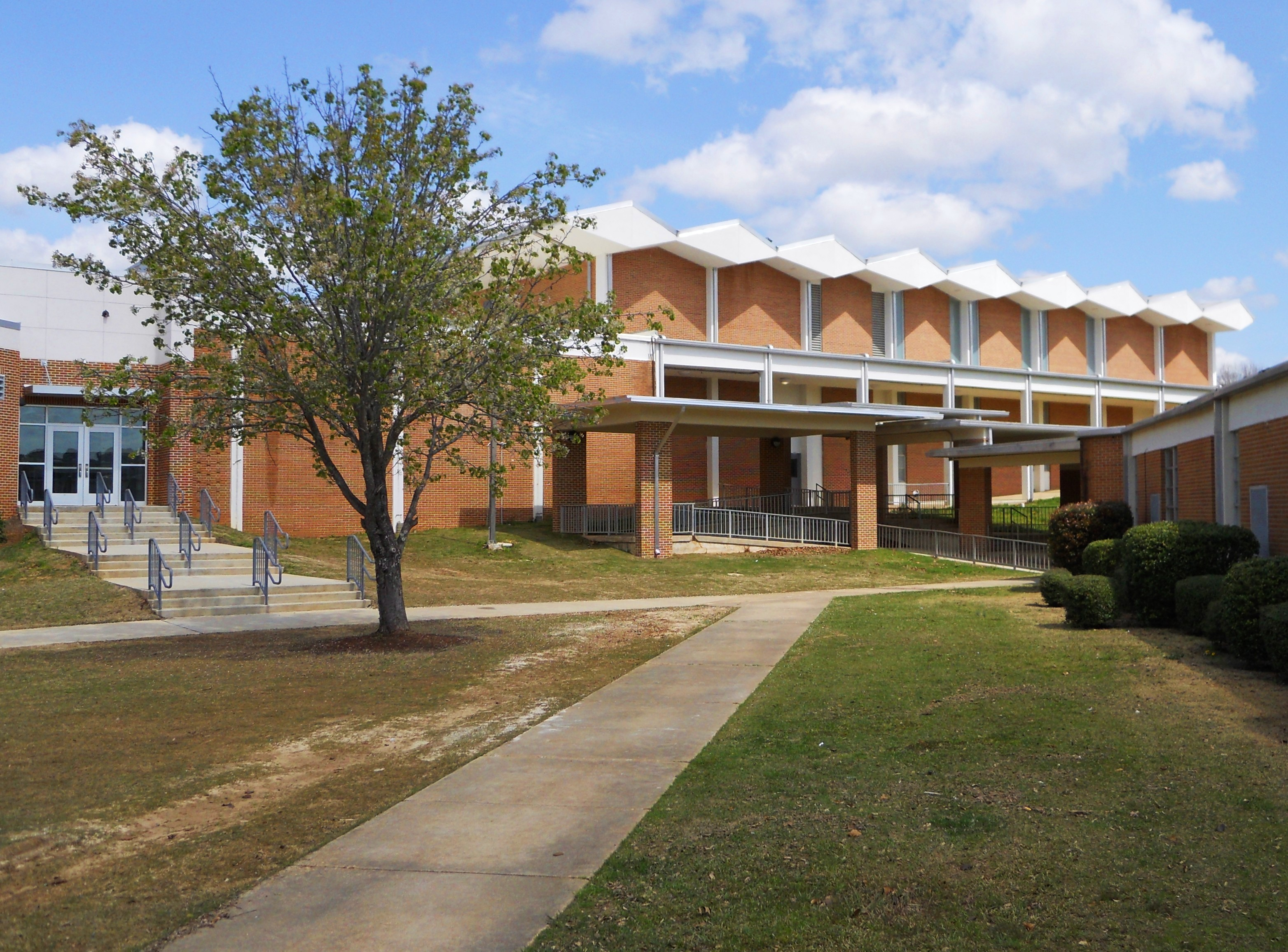 This is a photograph of the campus of Auburn High School located in Auburn, Alabama